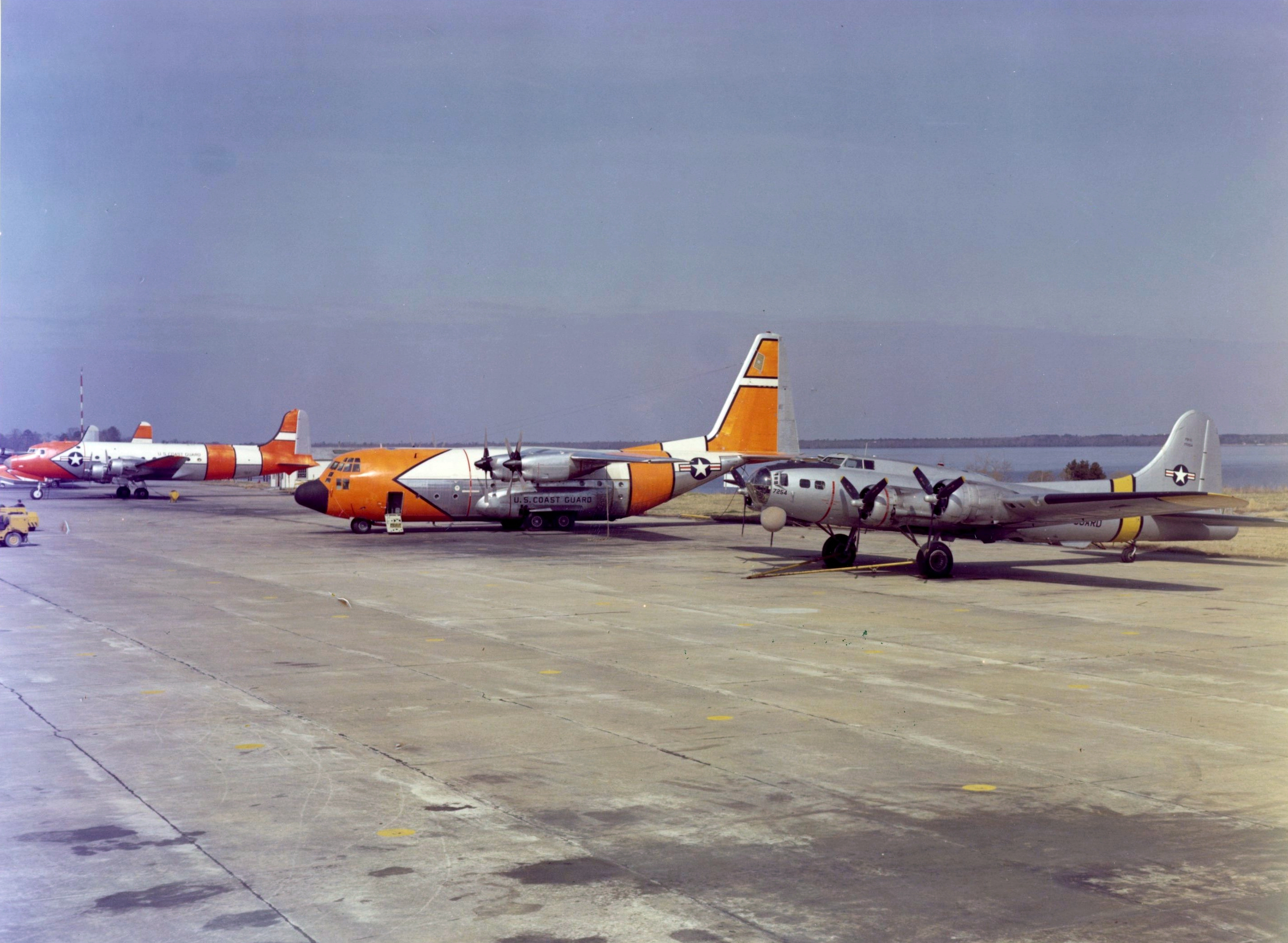 The U.S. Coast Guard's last Boeing PB-1G Fortress (s/n 77254, ex-USAAF 44-85828) alongside the first Lockheed HC-130B Hercules (s/n 1339, USAF s/n 58-5396) at the Coast Guard Air Station Elizabeth City, North Carolina (USA). The PB-1G 77254 was the last B-17 in U.S. military service (other than target drones and directors) flying its last mission on 14 October 1959.